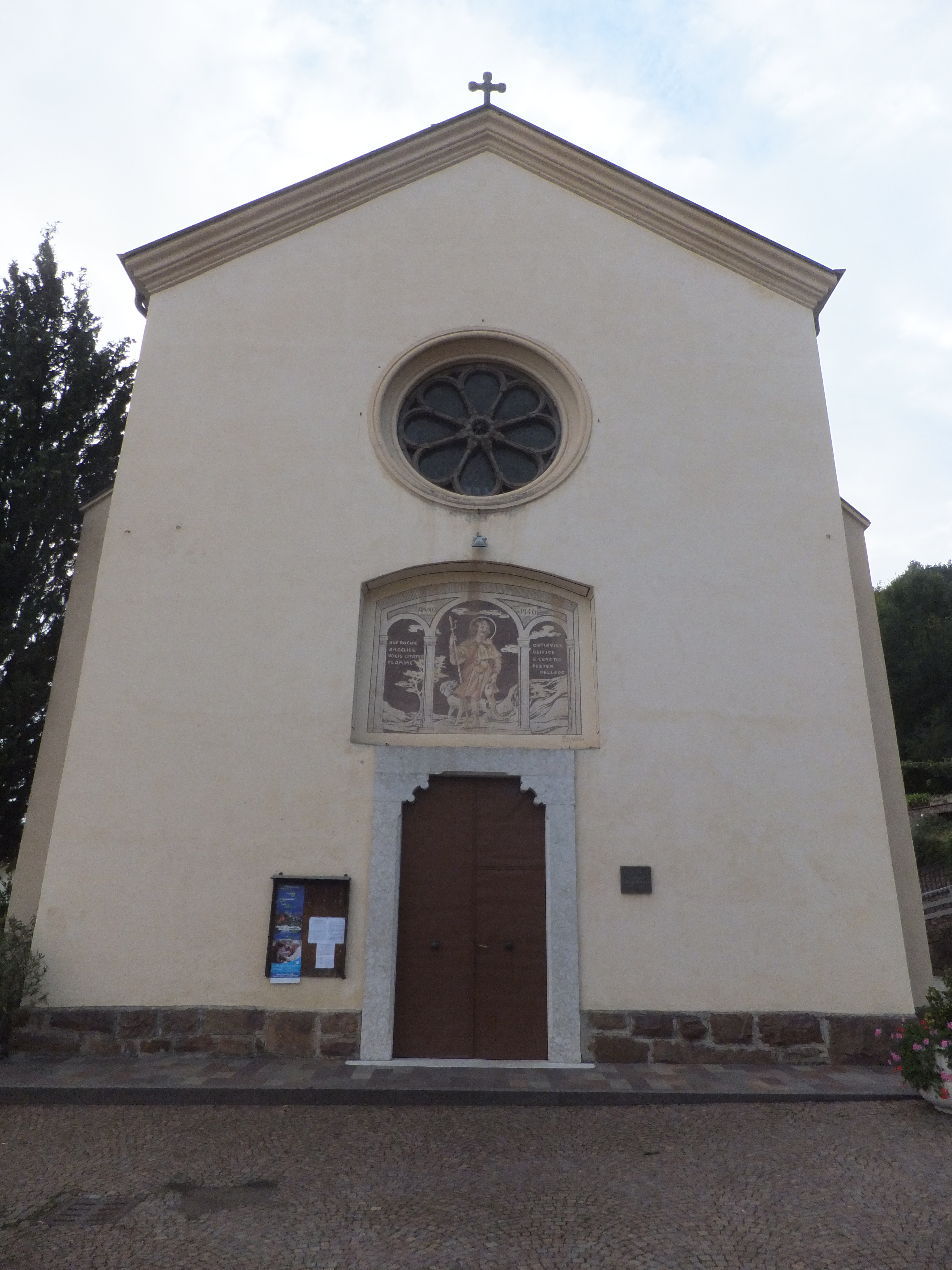 Ceola (Giovo, Trentino, Italy) - Church of Saint Roch